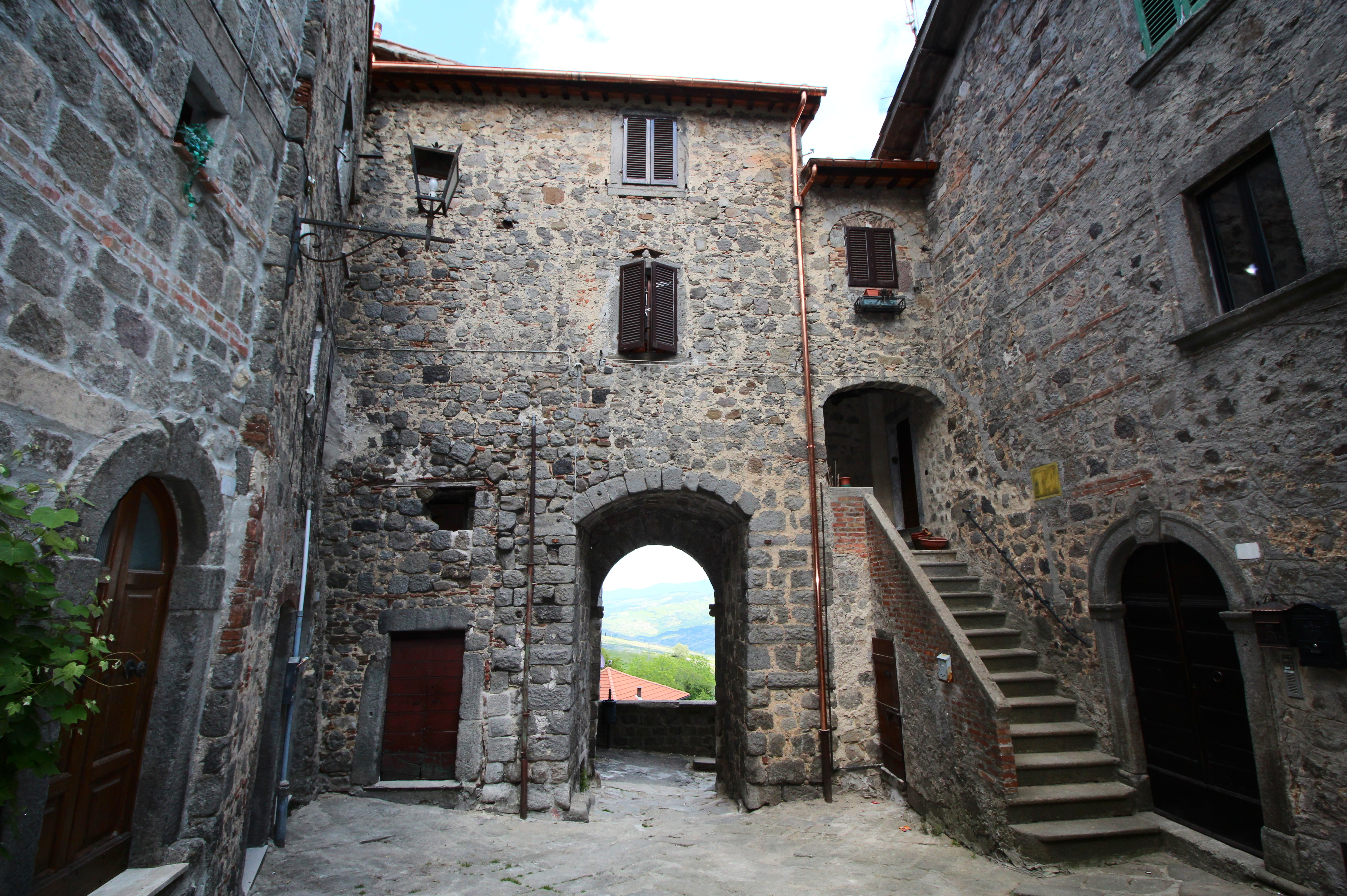 Porta del Torrione, also called Porta Nuova, City Gate in Abbadia San Salvatore, Province of Siena, Tuscany, Italy